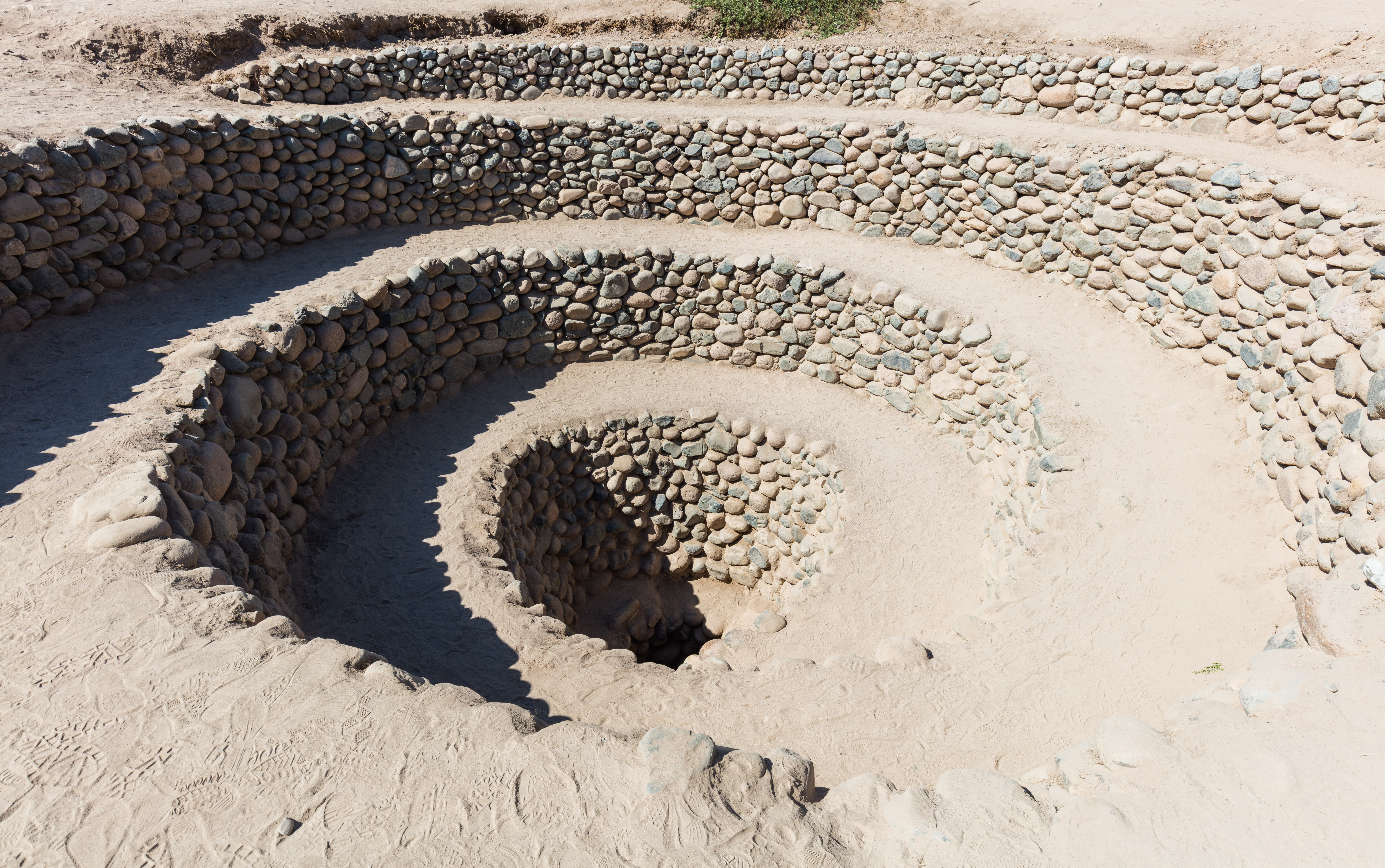 Cantalloc subterranean aqueducts, Nazca, Peru